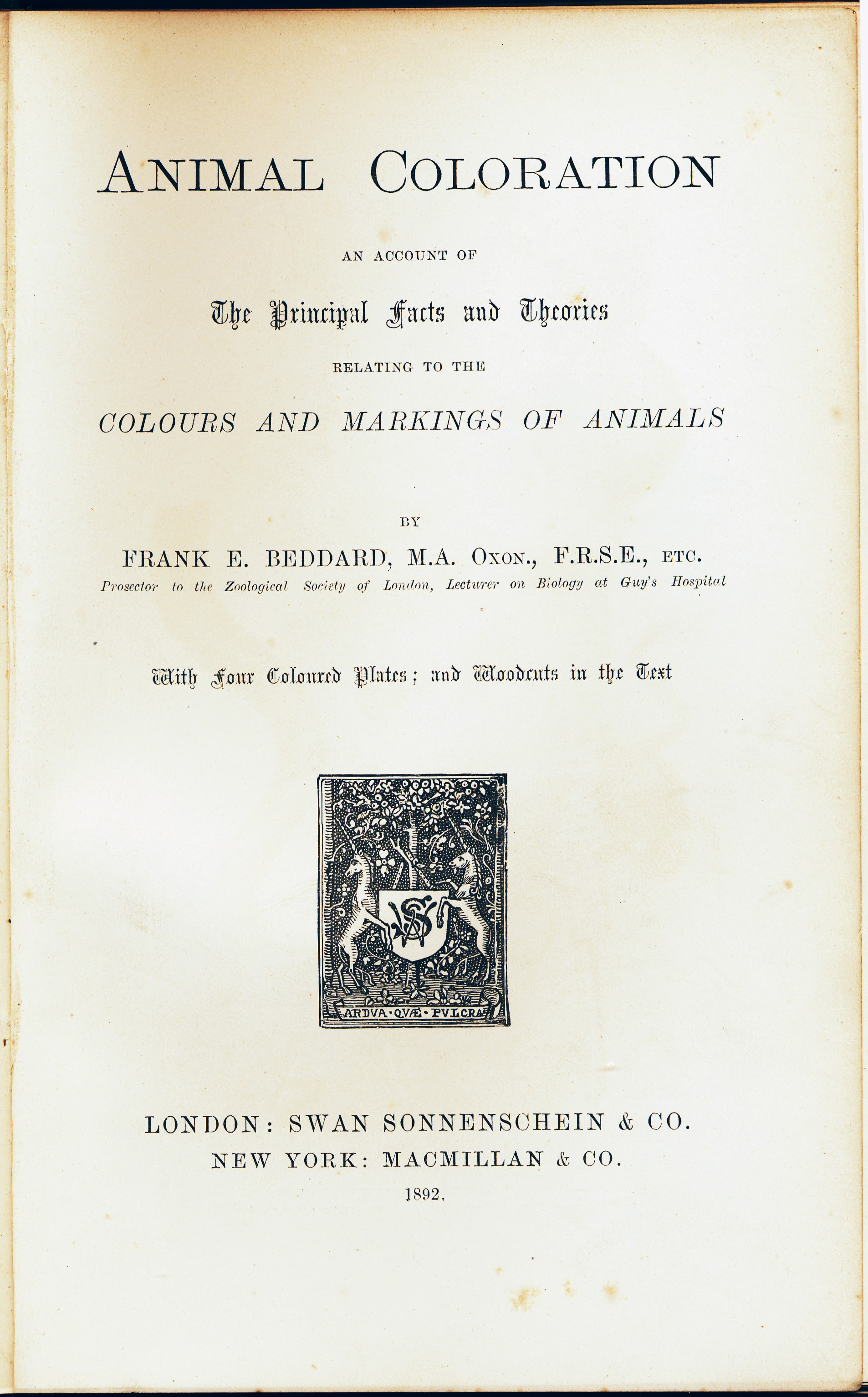 Title page of first edition of Animal Coloration by Frank Evers Beddard 1892